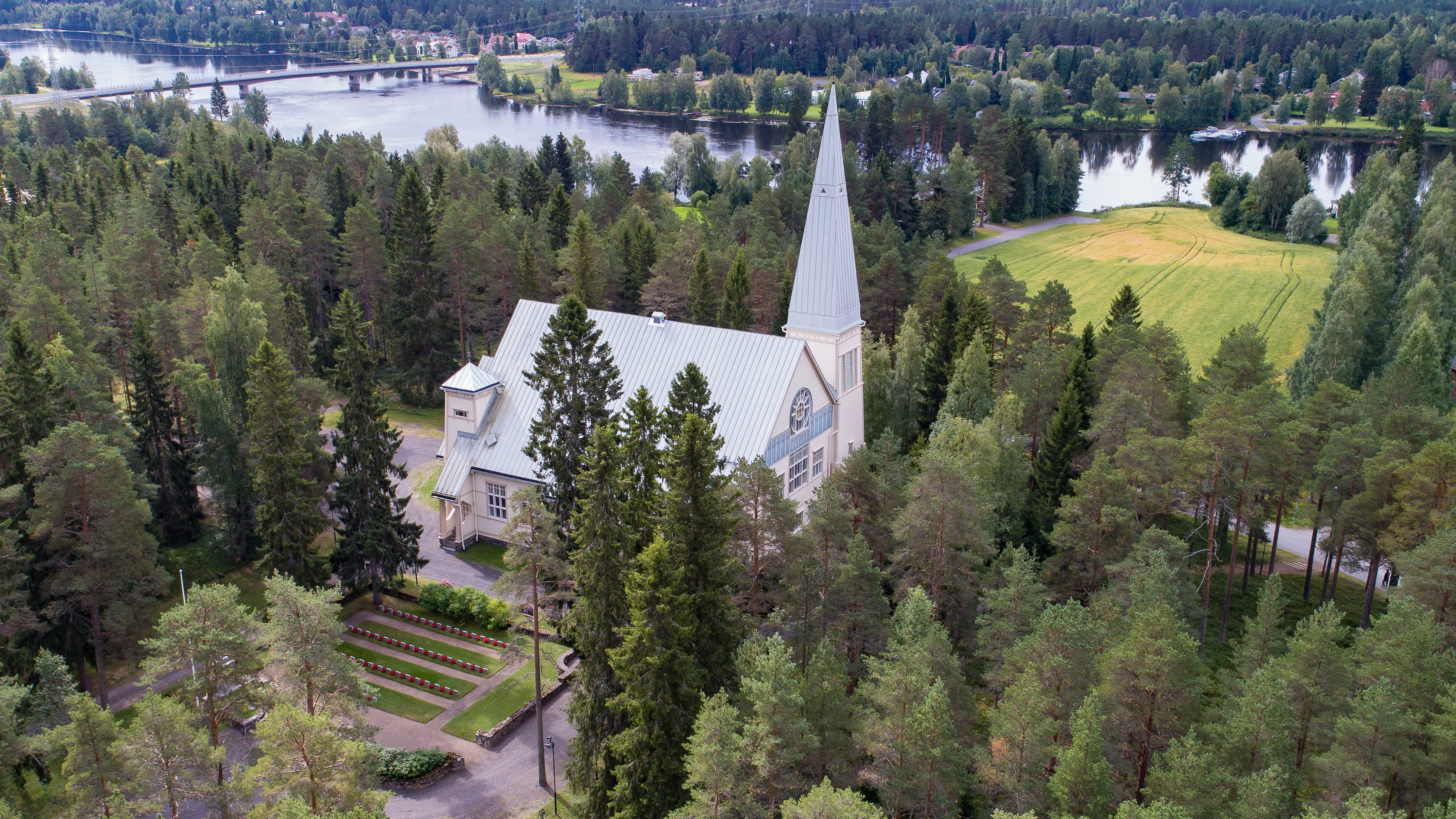 The Oulujoki Church was completed in 1908.